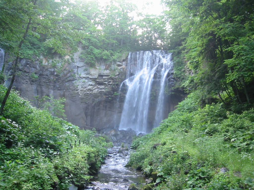 Ashiribetsu Falls, Minami-ku, Sapporo, Hokkaido